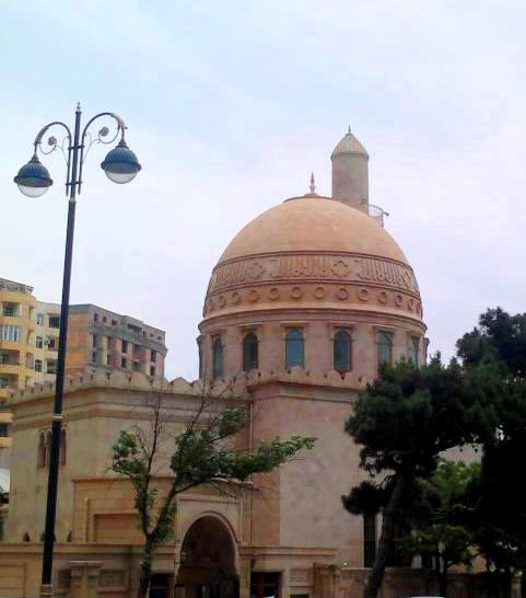 Ajdarbey mosque in Baku, Azerbaijan. Built in 1912.